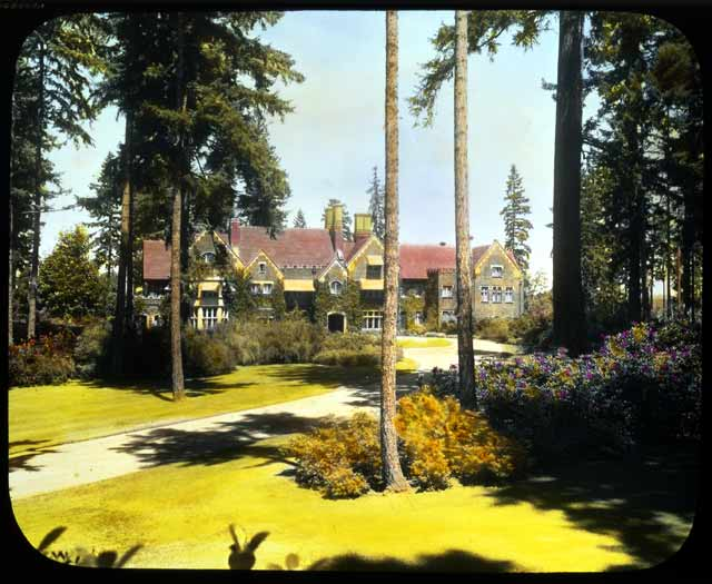 Photographer: Curtis, Asahel Type: Projected media Date: 1933 1933 Aug Topic: Summer Driveways Lawns Rhododendrons Shrubs Evergreens Vines Houses Gardens Local number: WA005014 Physical description: 1 slide: glass lantern, col.; 3 x 5 in Notes: No 35 mm slide Place: Washington (State) Tacoma Thornewood (Tacoma, Washington) Persistent URL: Repository:Archives of American Gardens View more collections from the Smithsonian Institution.